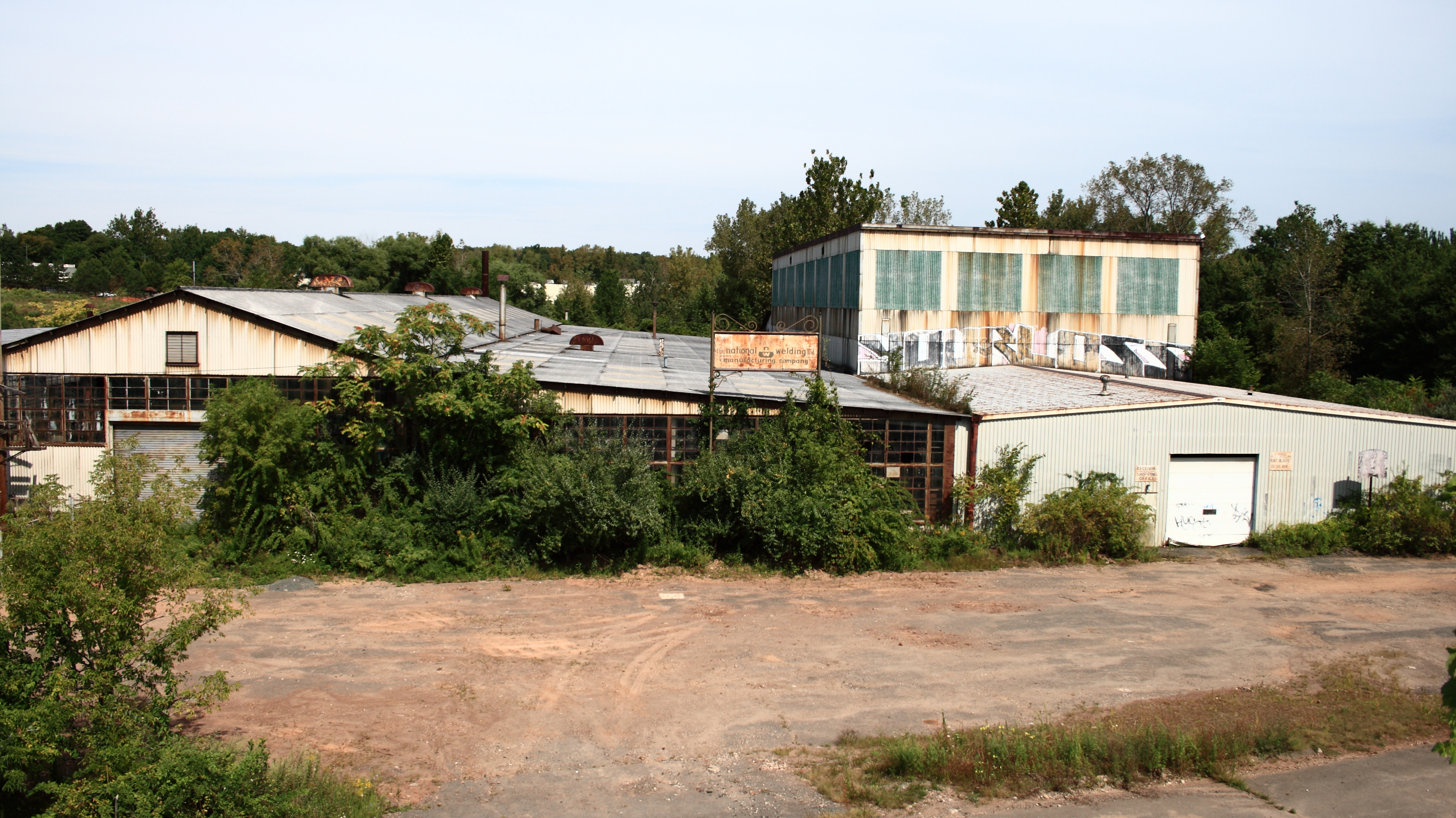 The former site of the National Welding and Manufacturing Company, 690 Cedar Street in Newington, Connecticut. According to the Environmental Protection Agency, the site "is occupied by an inactive building formerly used by NWM for machining operations, and a building currently used for office space and occasional vehicle maintenance."[1] ↑ NATIONAL WELDING AND MANUFACTURING, U. S. Environmental Protection Agency, accessed 2009-09-07